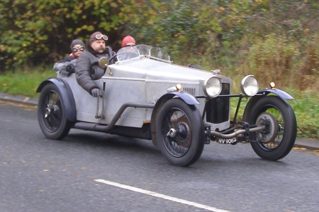 NV9062 a 1929 Frazer Nash Super Sports following the 2008 London-to-Brighton veteran car run at Handcross, West Sussex, England